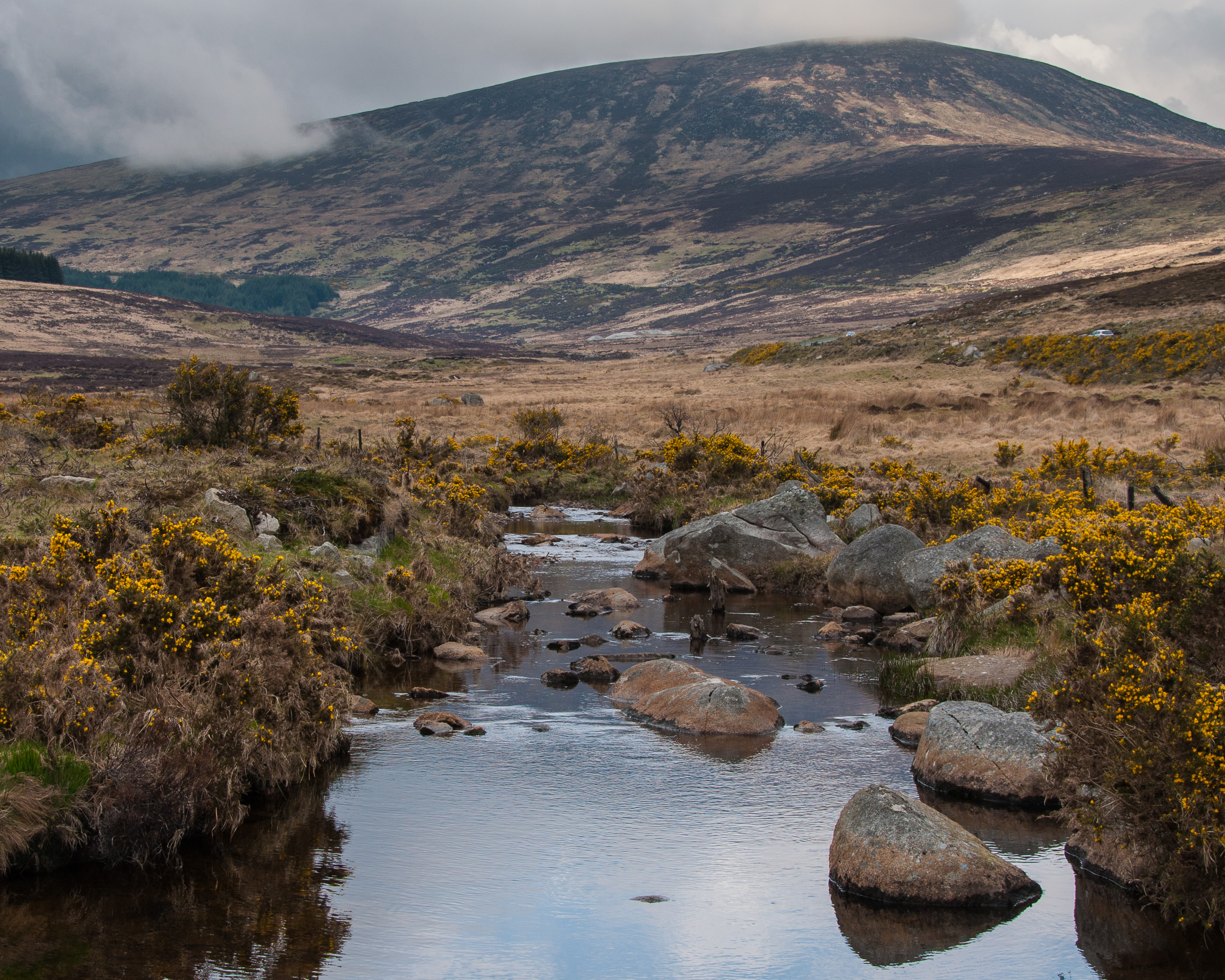 The Glendasan river in the Wicklow Mountains, County Wicklow, Ireland. In the background is Tonelagee, the third highest mountain in the range.